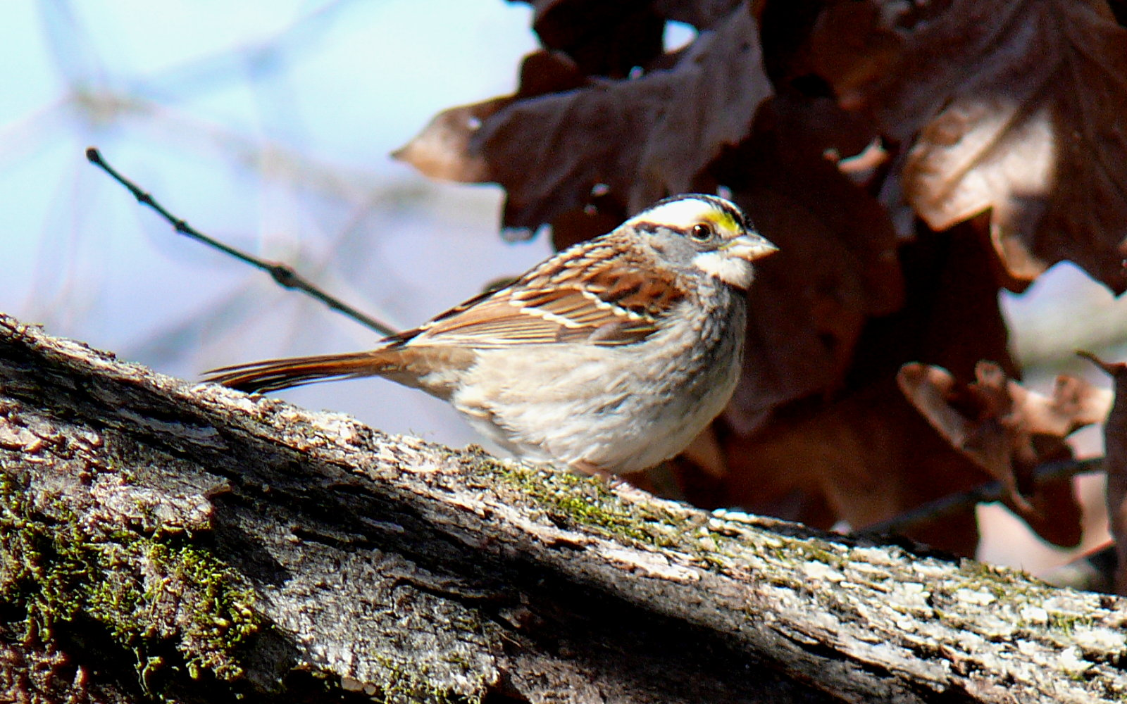 A White-throated Sparrow (Zonotrichia albicollis) in an Oak tree.Photo taken with a Panasonic Lumix DMC-FZ50 in Caldwell County, NC, USA.